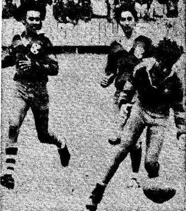 Photograph of PL Munasinghe, Wihelm Bogstra, Devaka Fernando